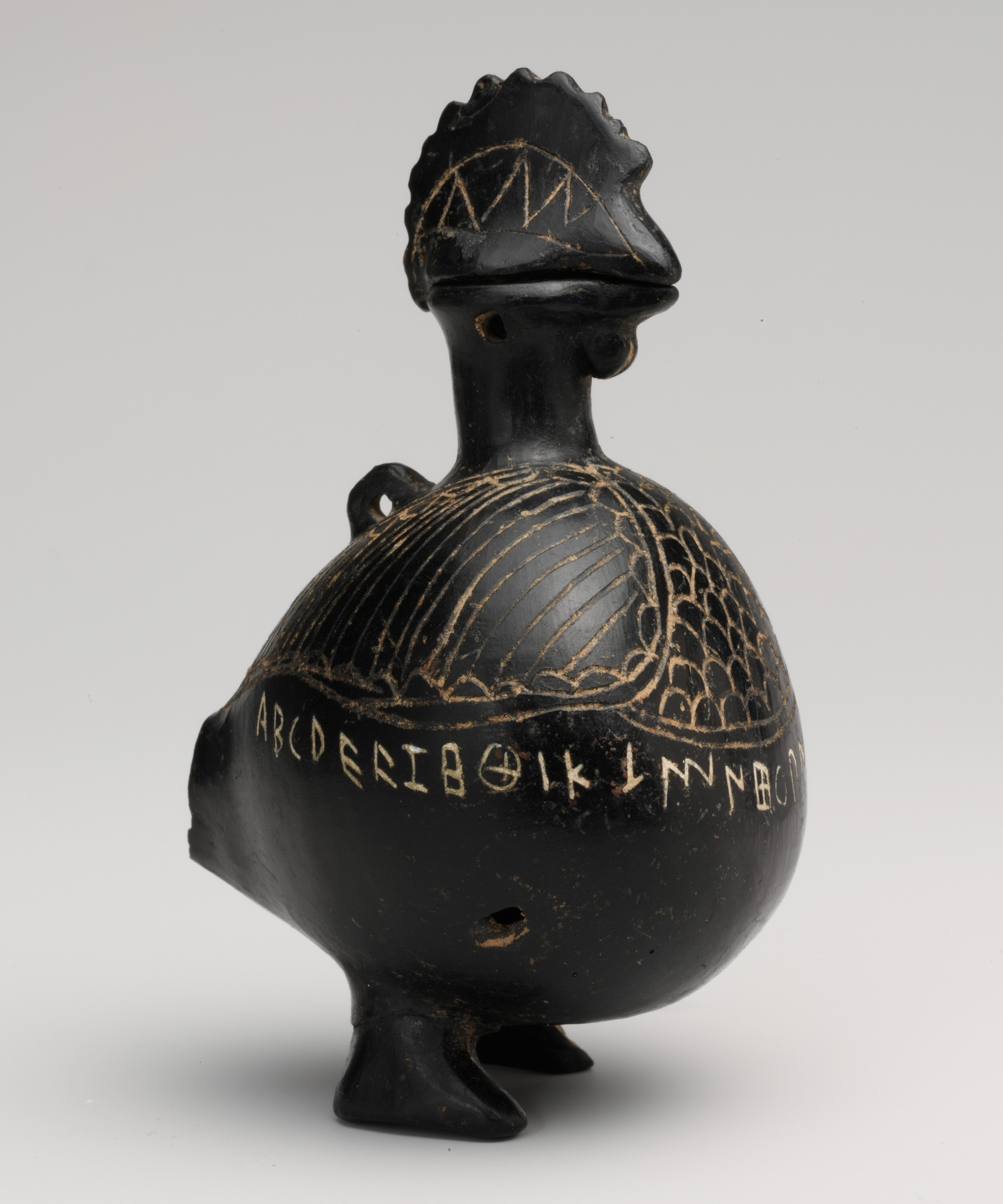 Terracotta vase in the shape of a cockerel with an alphabet inscription